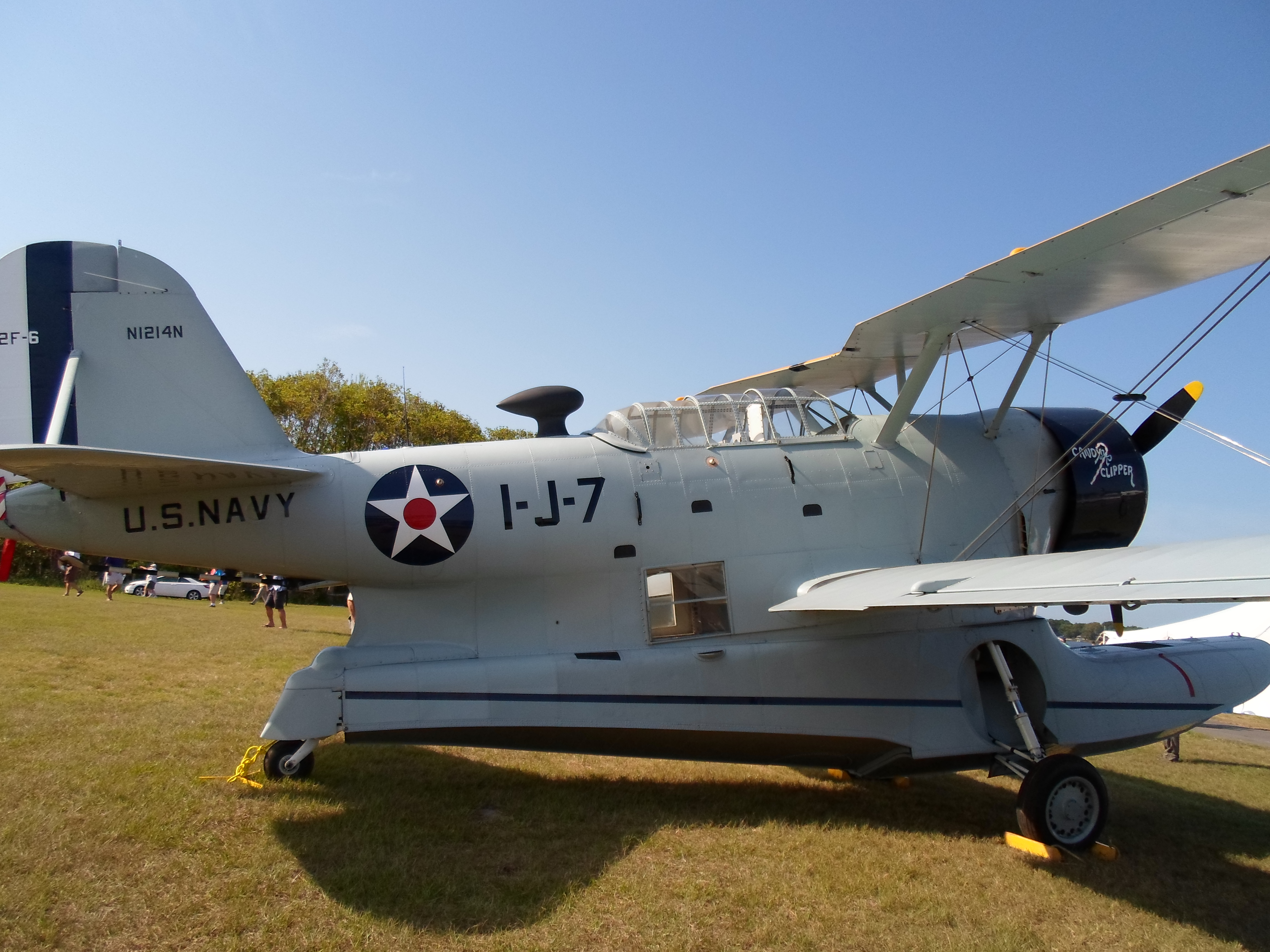 The Grumman J2F Duck owned and operated by Kermit Weeks known as the "Candy Clipper" after a famous aircraft of the same name which operated in Bataan in 1942.